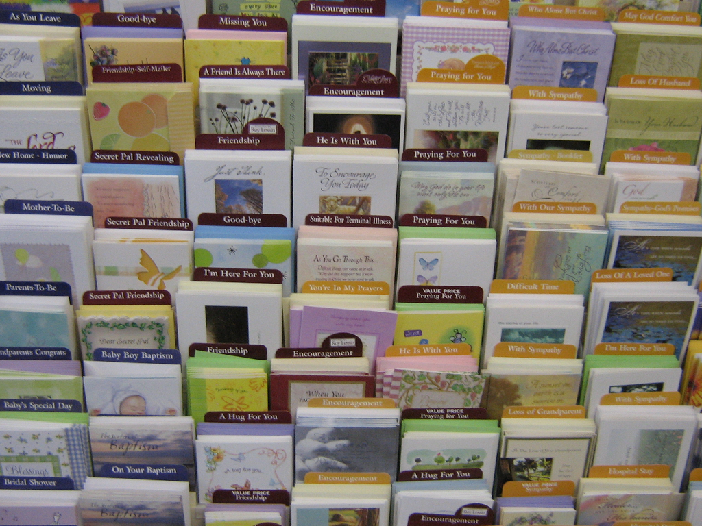 I took this picture myself.